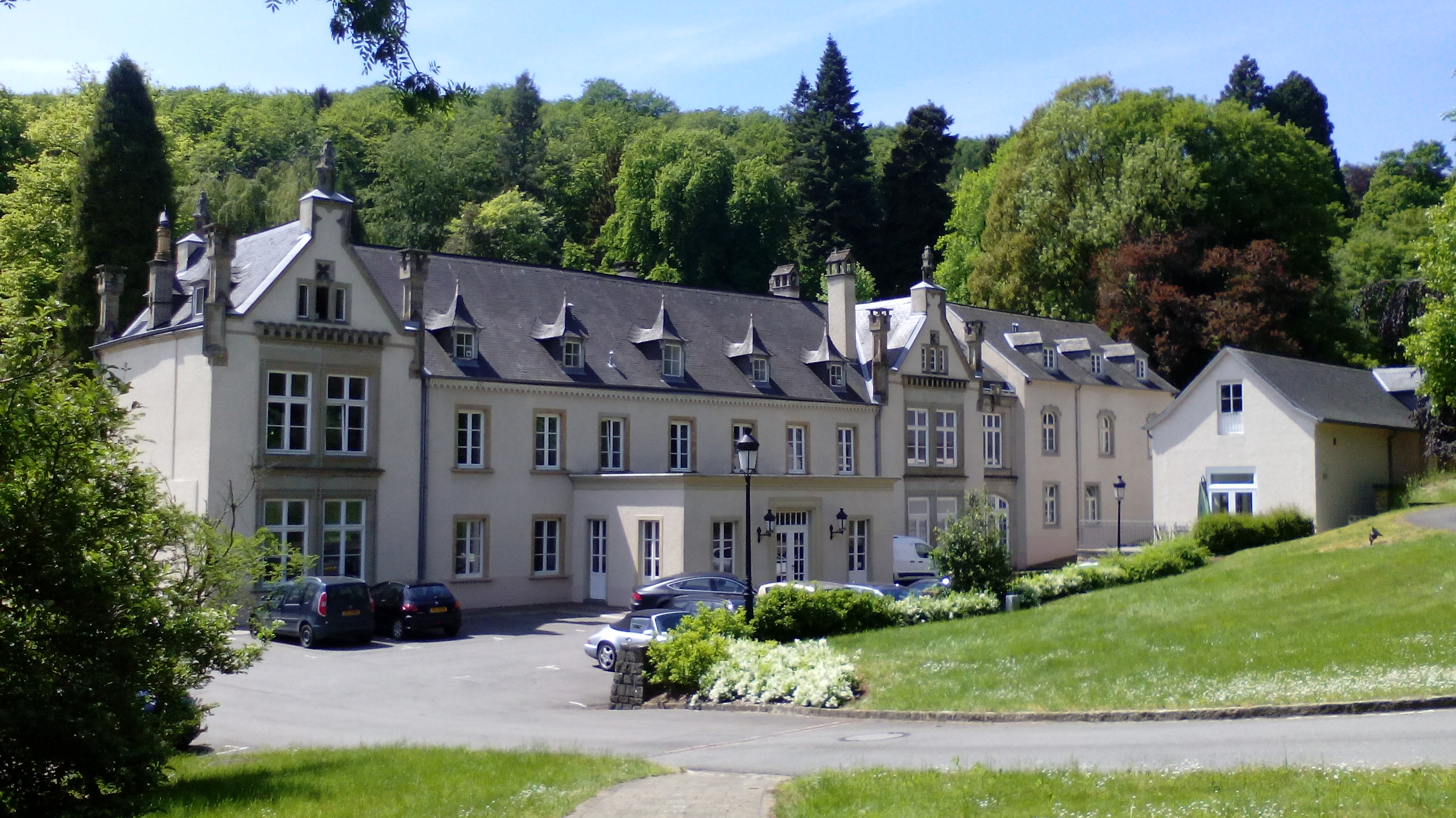 Backside of Castle of Senningen, Luxembourg Аҧсшәа: Récksäit vum Sennenger Schlass, Lëtzebuerg